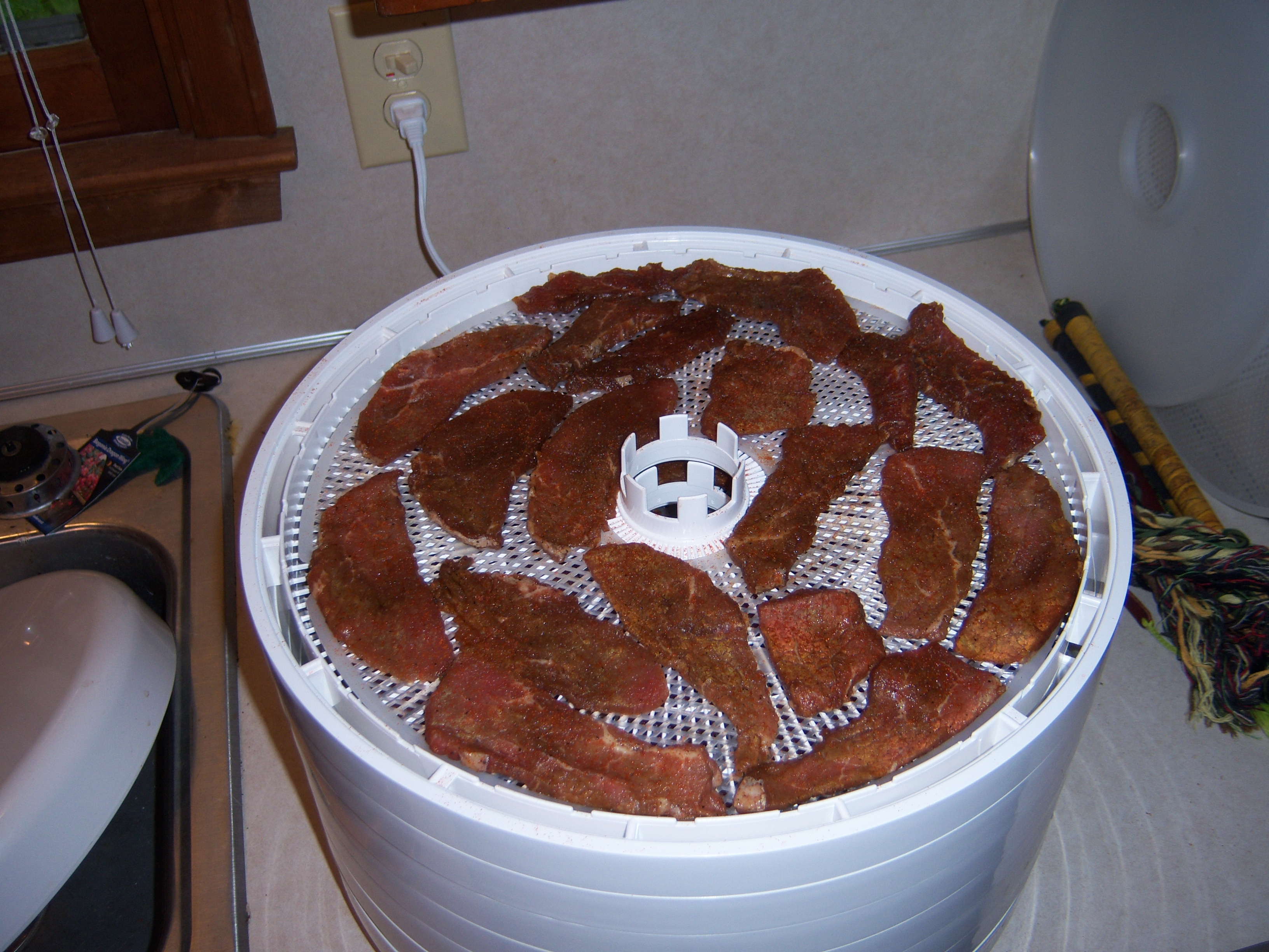 Raw meat in dehydrator, ready to turn into jerky. Roast, trimmed and sliced against the grain, soaked in soy sauce and teriyaki over night and seasoned with salt and cayenne pepper, ready for 5 to 7 hours of dehydration at 160F.